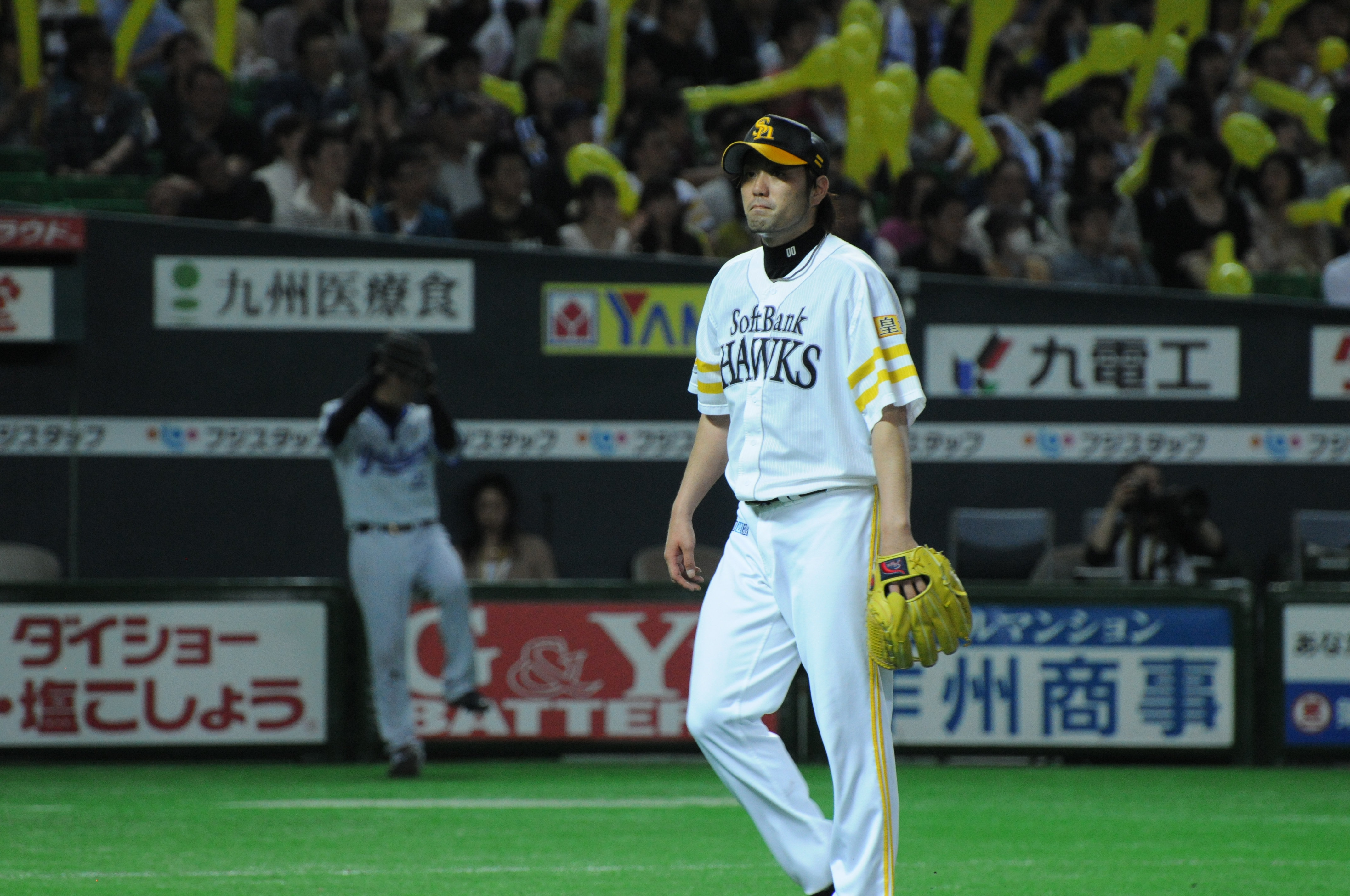 Teruaki Yoshikawa, pitcher of the Fukuoka SoftBank Hawks, at Fukuoka Dome.